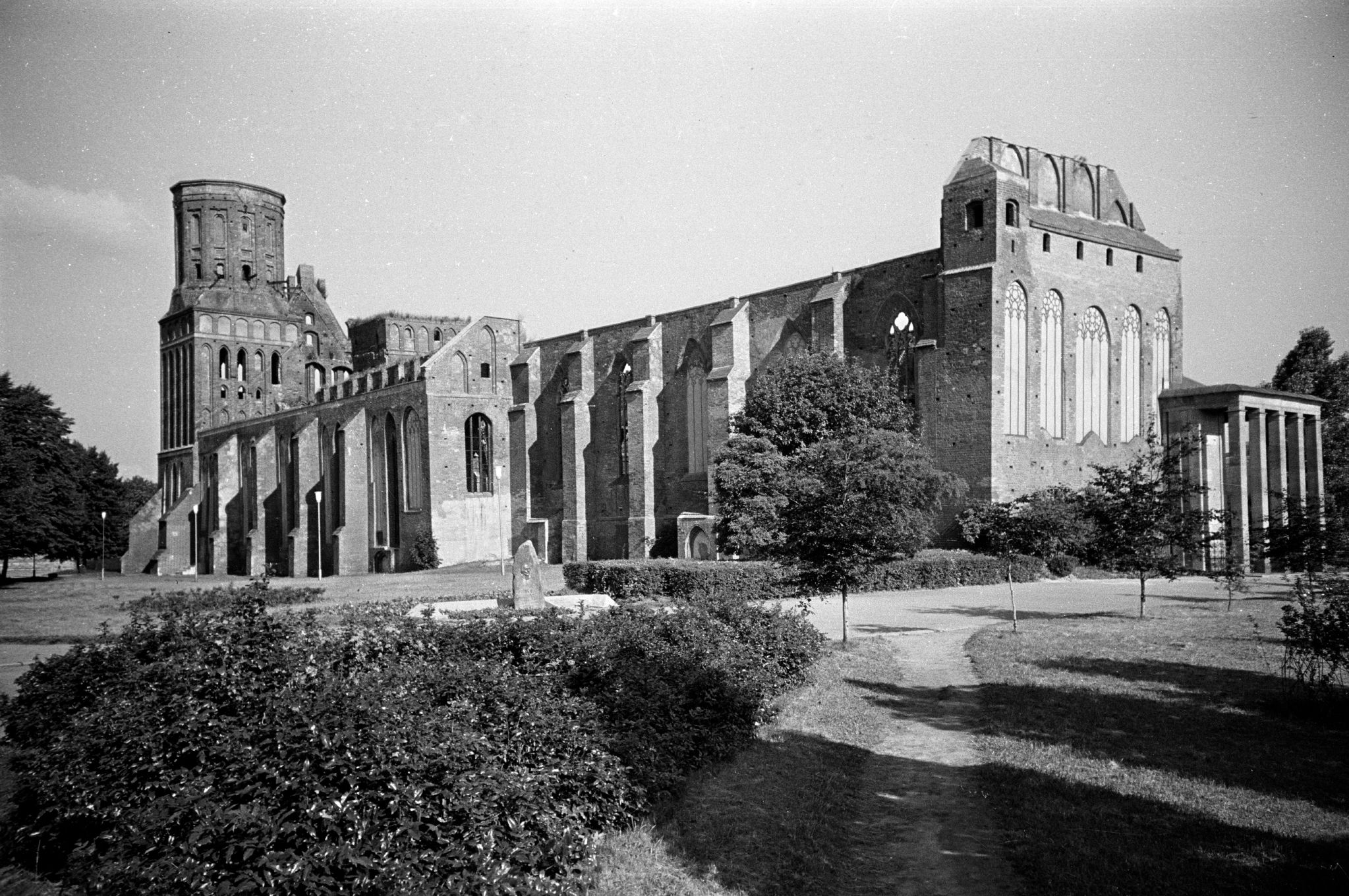 Königsberg cathedral in 1988